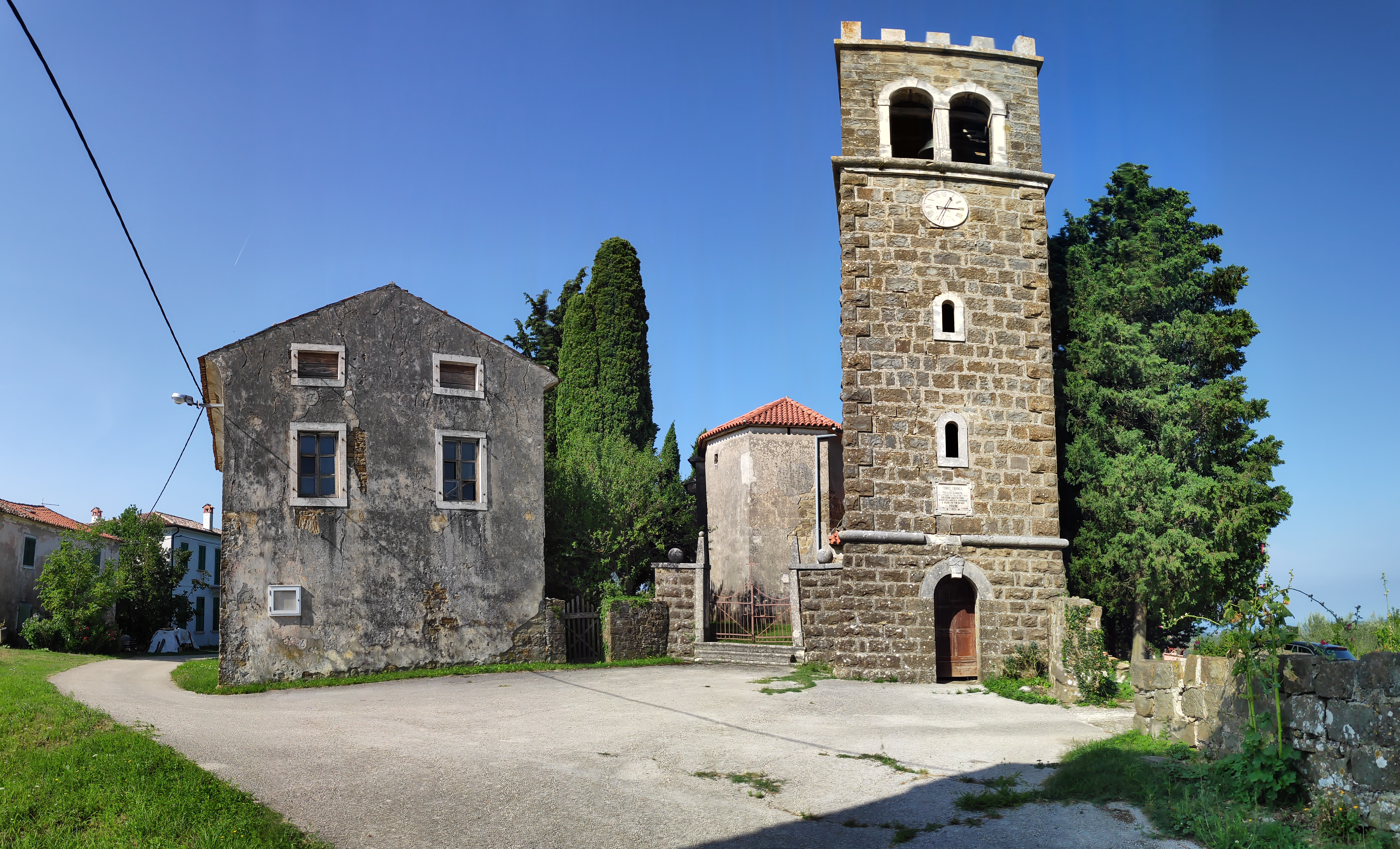 Brdo (Buje, Istra)